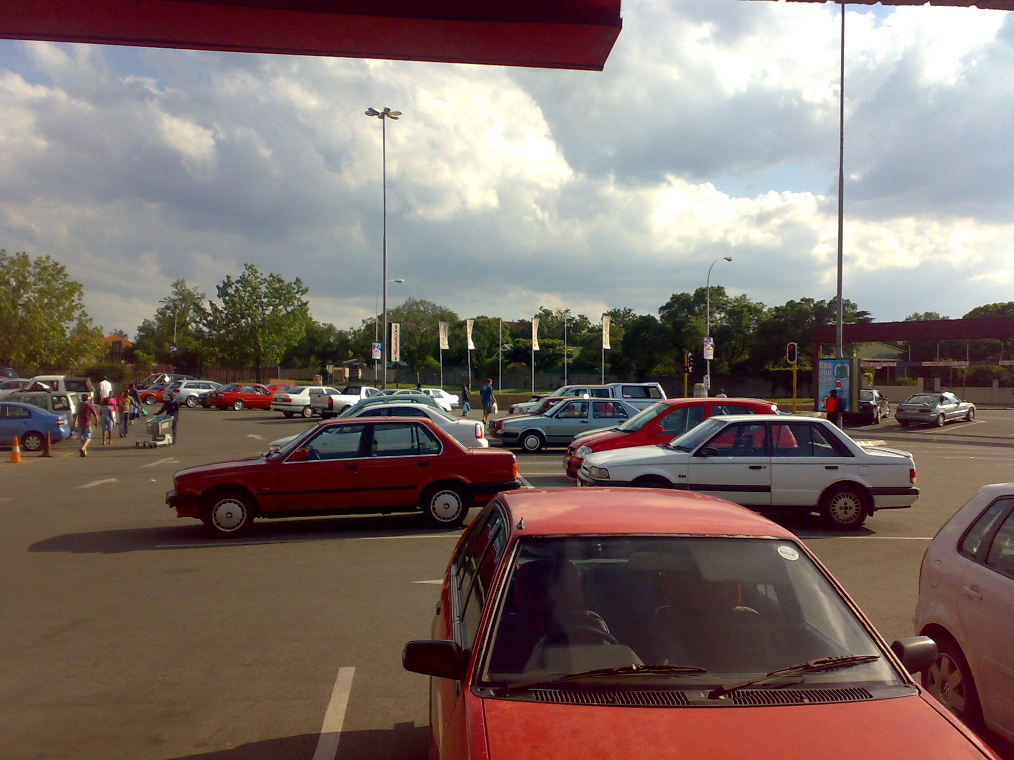 The parking lot of the Parkhill Gardens Pick n Pay supermarket in Germiston, Gauteng, South Africa (2007).